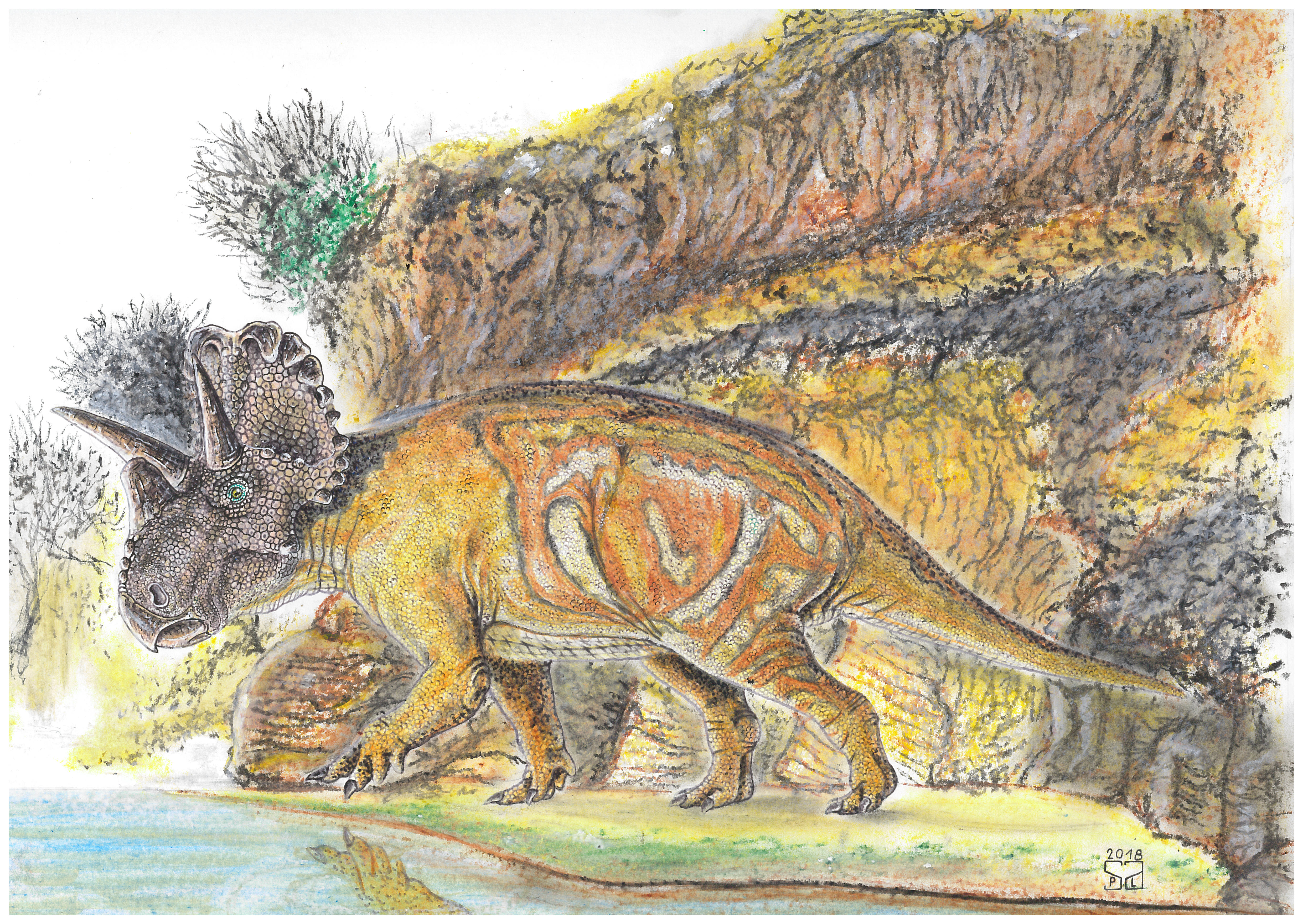 Life restoration of Wendiceratops by Pedro Salas